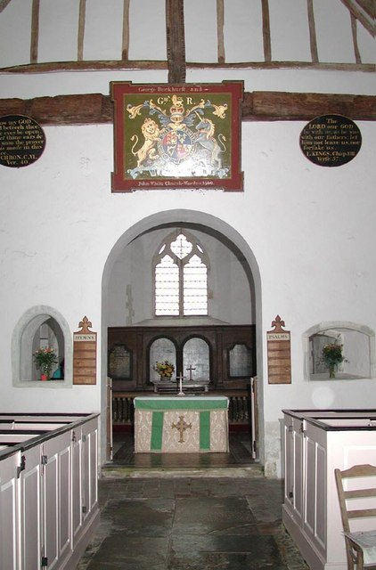 St Clement, Old Romney, Kent - East end